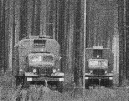 Military radio station: R-110M (5 kW) on military vehicle ZIL 157.